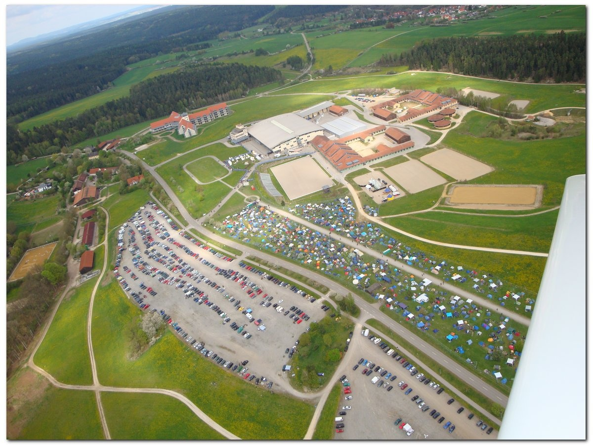 Aerial photography of the camping ground and the "Gut Mateshof" of the Ragnarök-Festival 2010 in Rieden/Kreuth.